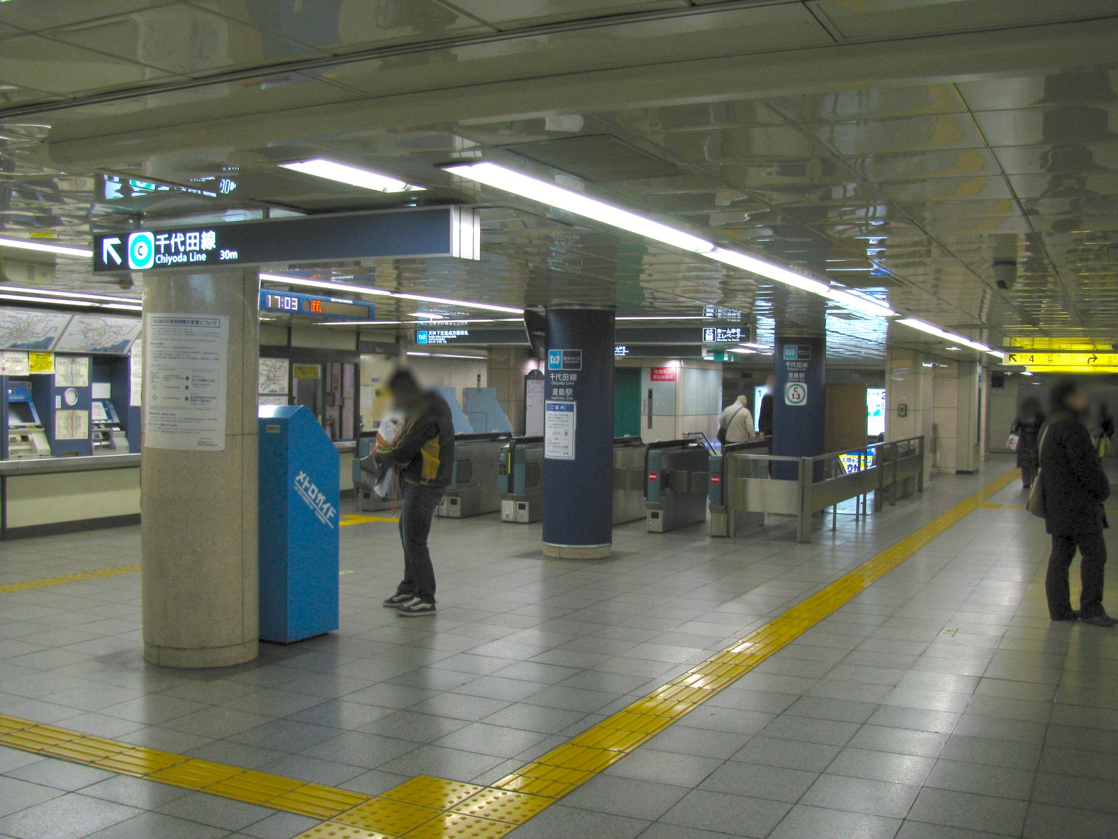 Yushima station